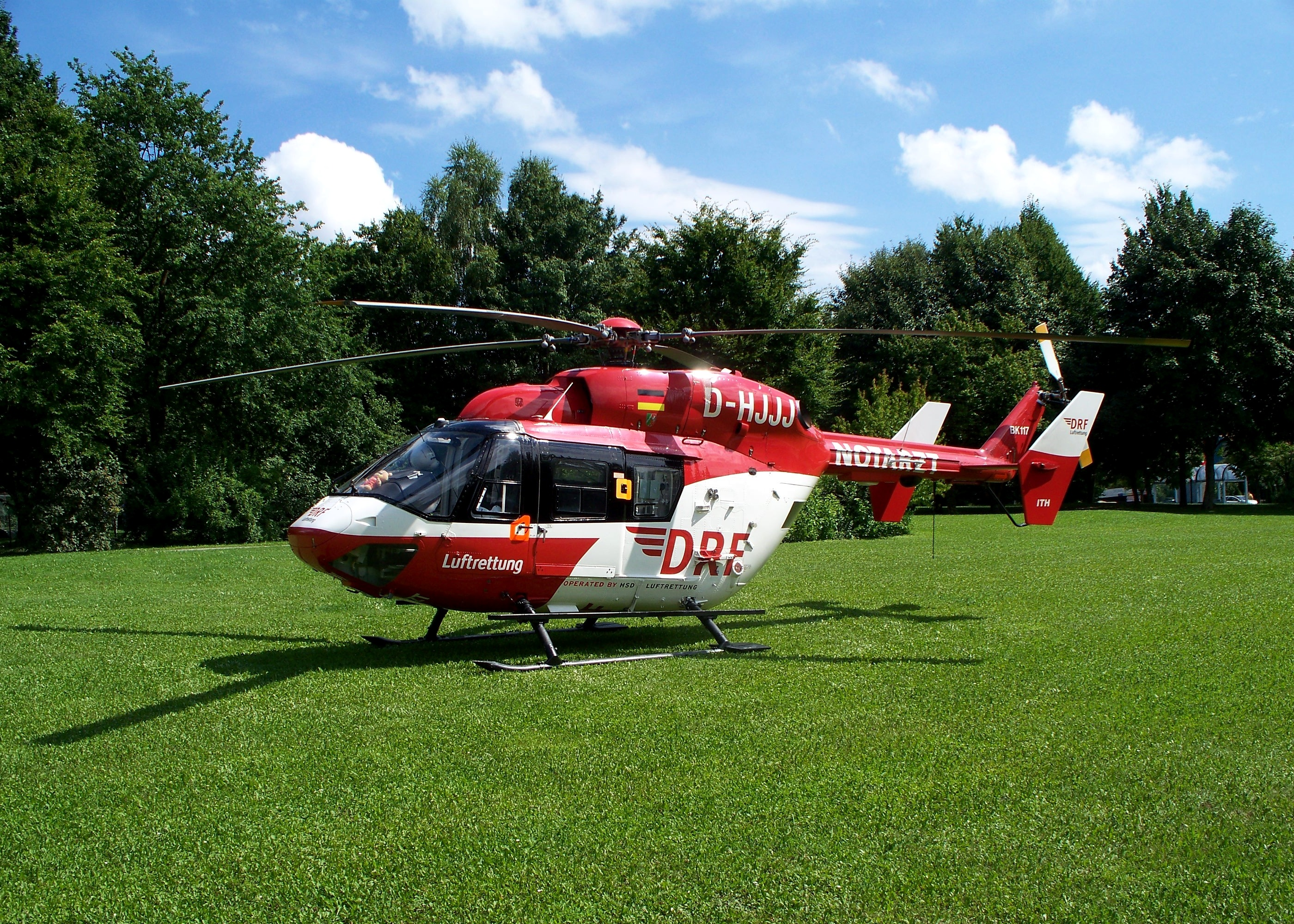 Air rescue helicopter Eurocopter BK-117 B2 in Bad Griesbach, Germany.